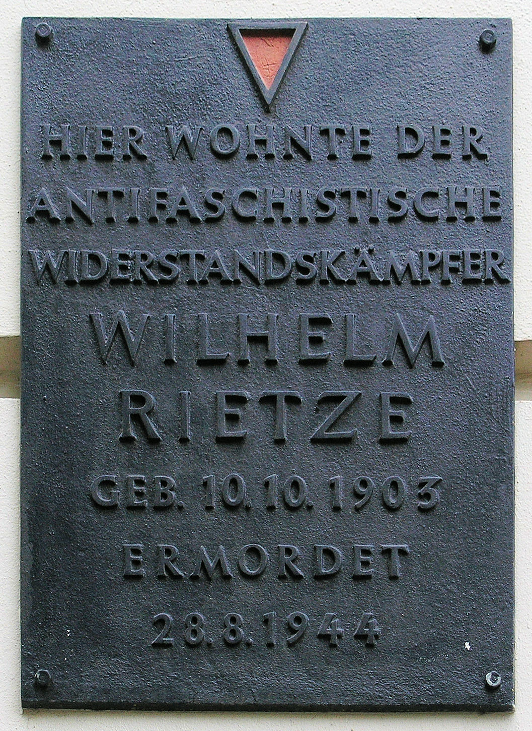 Memorial plaque, Wilhelm Rietze, Dunckerstraße 13, Berlin-Prenzlauer Berg, Germany Koordinate:52°32′34″N 13°25′16″E / 52.54278°N 13.42111°E